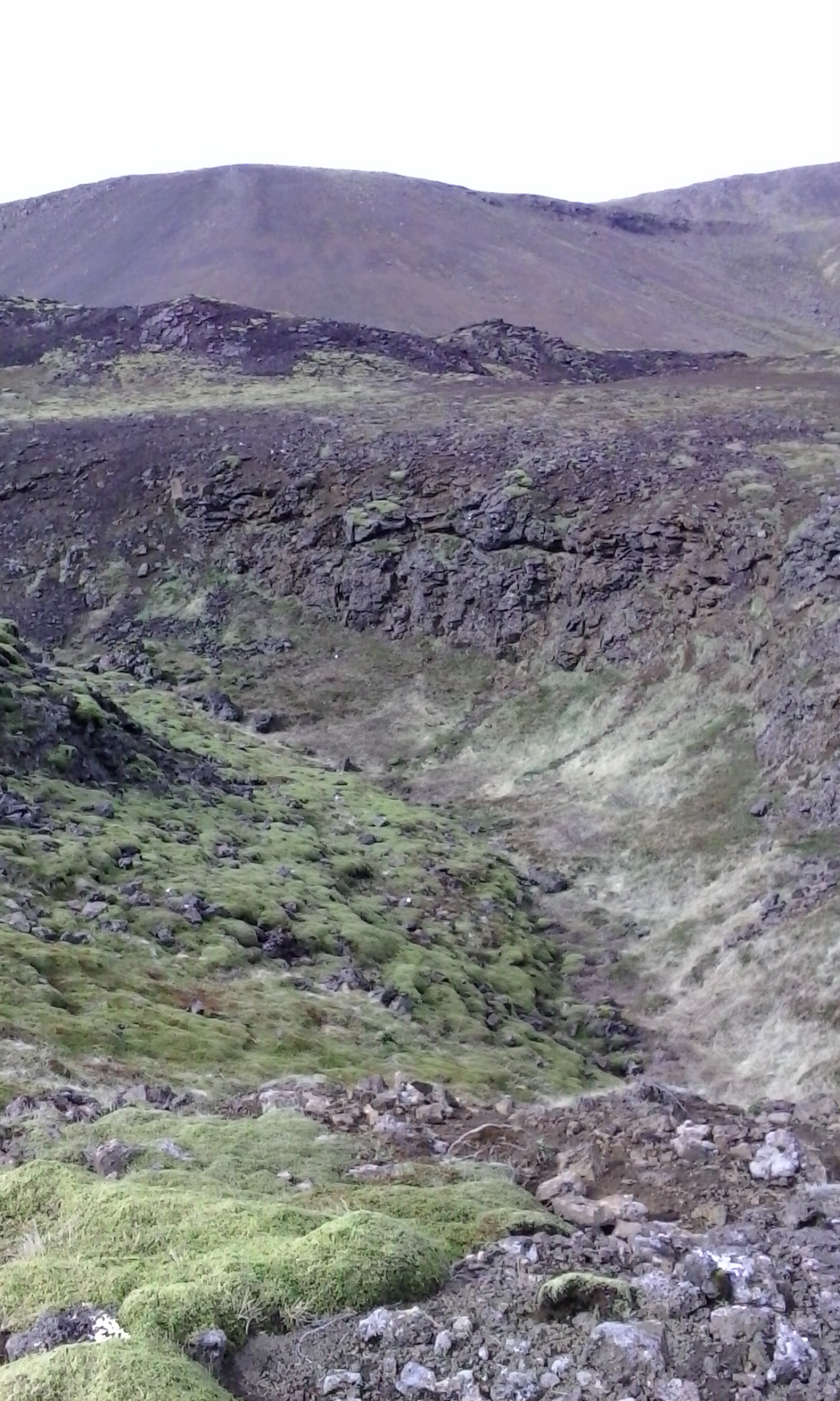 Lava channels around Eldborg, Krýsuvík, Iceland